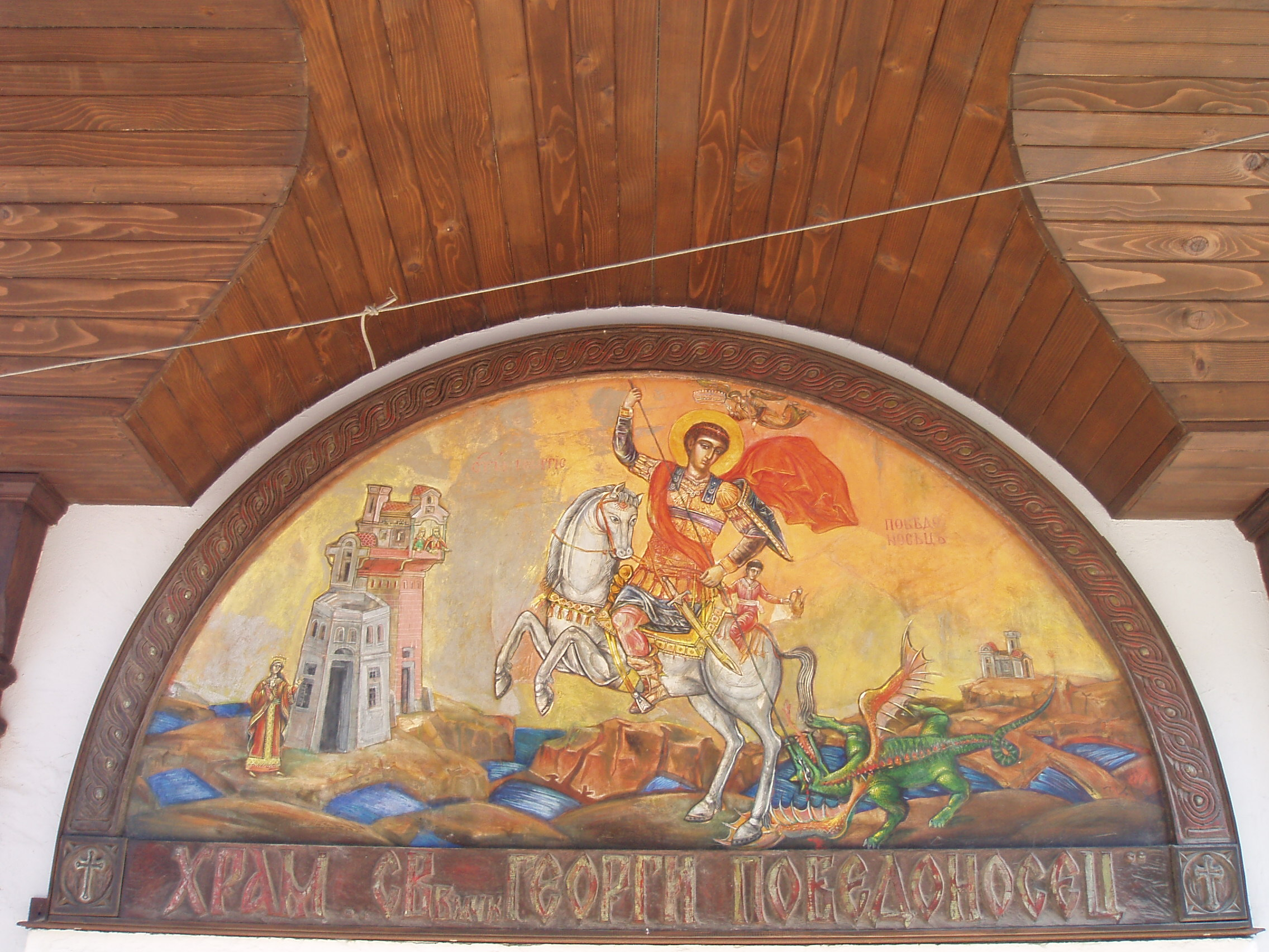 Artwork of St George slaying the dragon. Mural above the entrance to a church in Sozopol, Bulgaria.